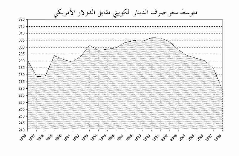 Average Exchange Rate of Kuwait Dinar Against U.S. Dollar (Fils) Based On Central Bank Of Kuwait Website